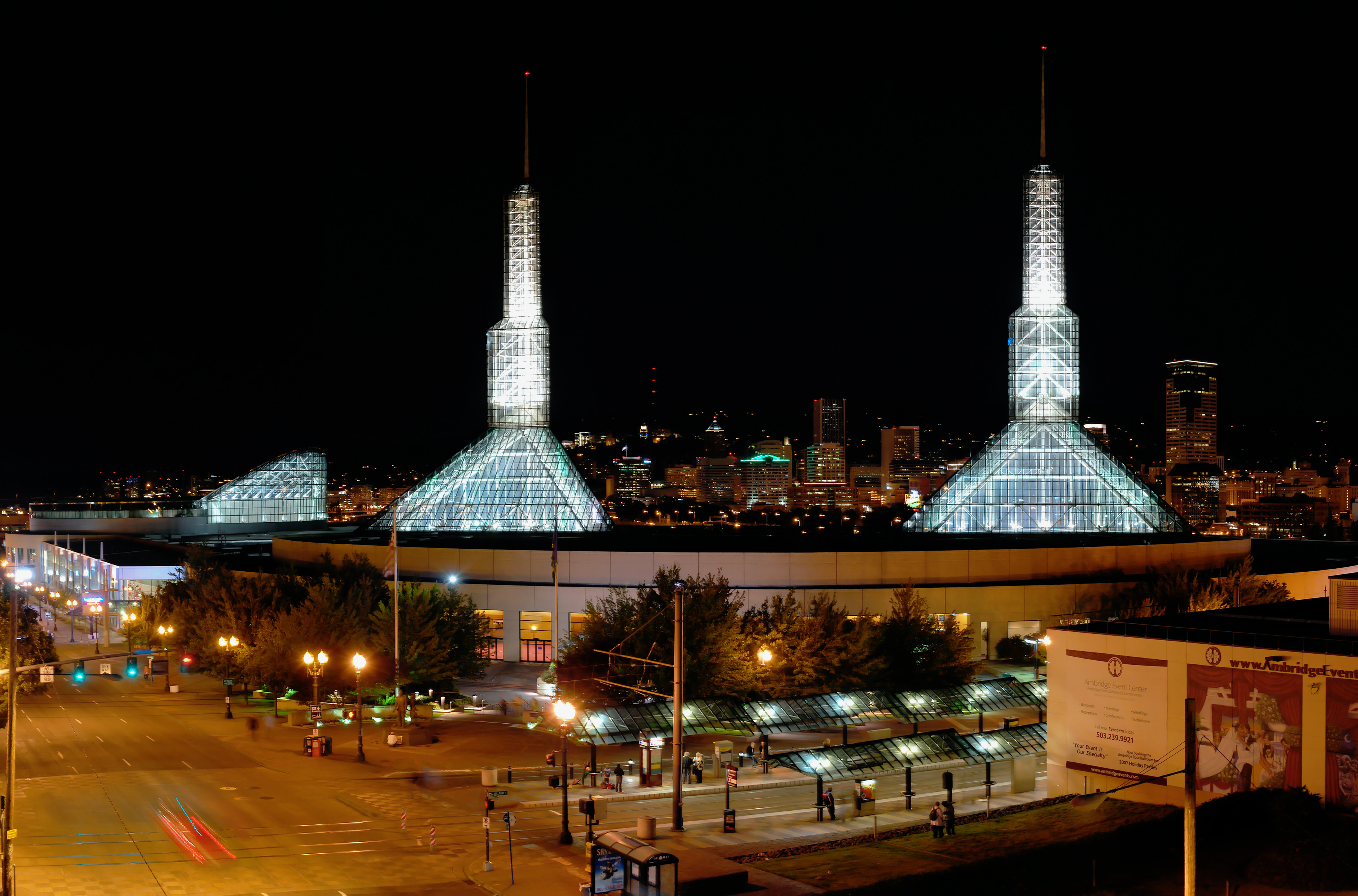 Edit of Image:Portland Convention Center 1.jpg